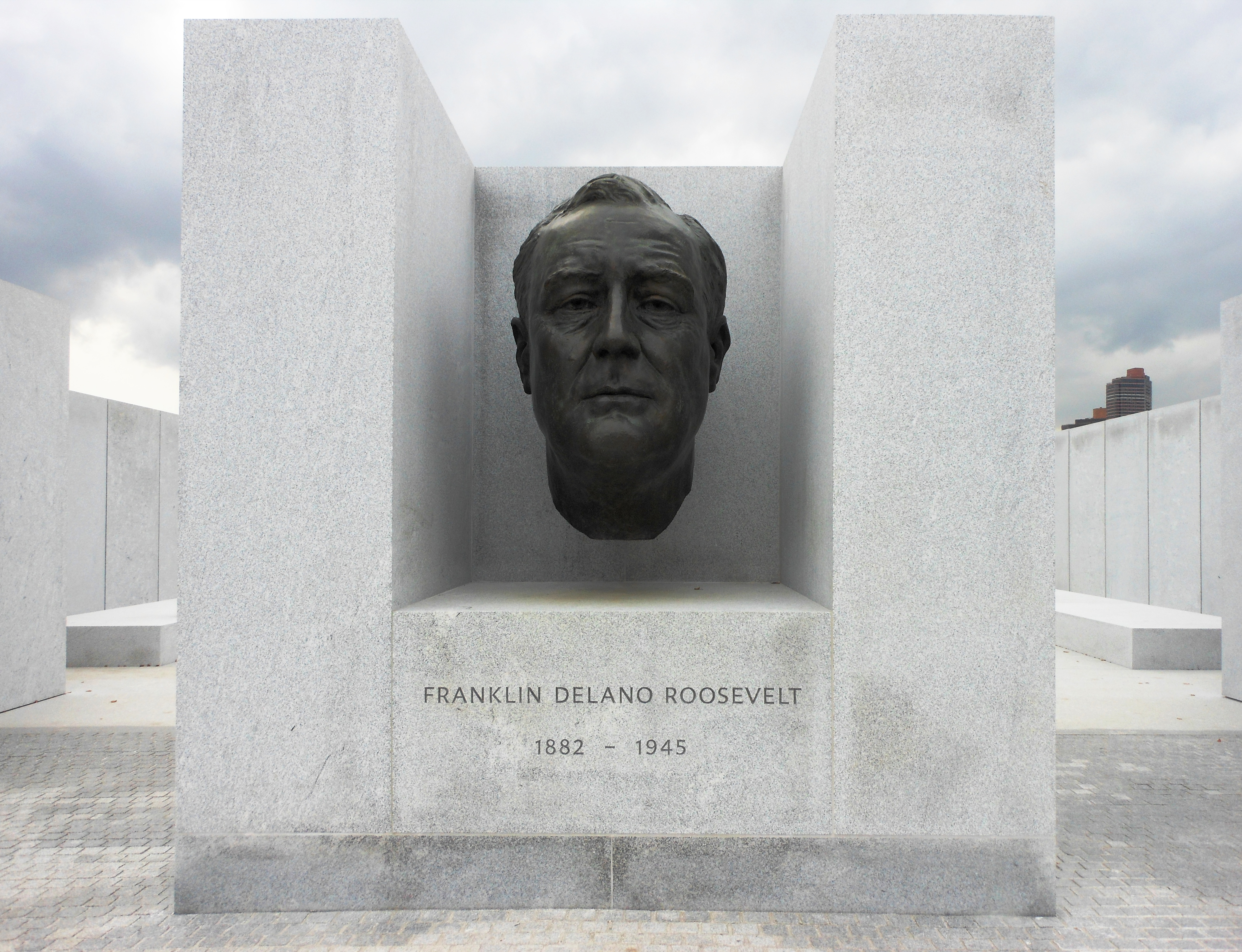 Statue of FDR at Four Freedoms Park On Roosevelt Island, New York City